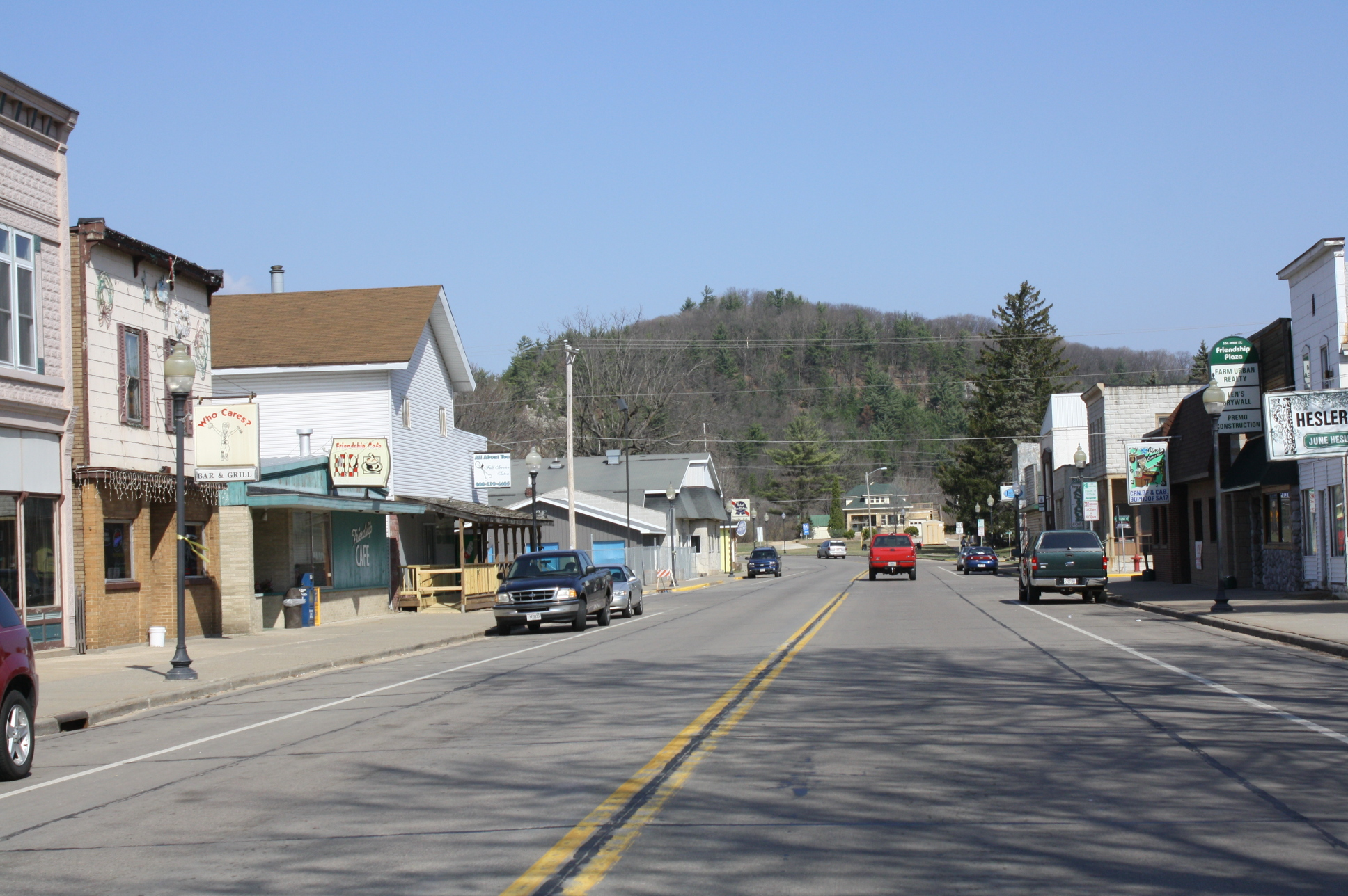 Looking north at downtown Friendship, Wisconsin on Wisconsin Highway 13.